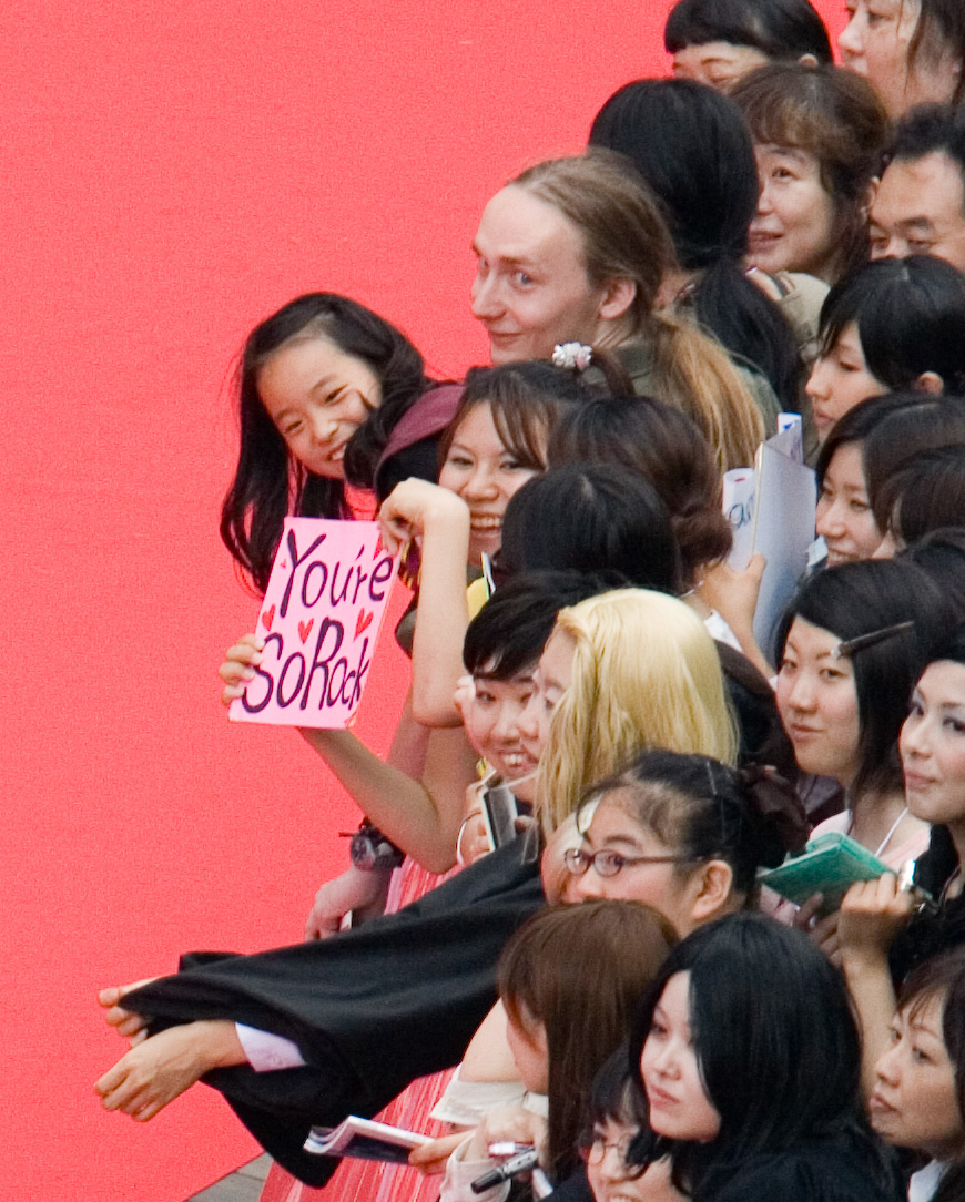 Harry Potter fans in costume eagerly await the start of the Tokyo June 2007 premier of Harry Potter and the Order of the Phoenix.